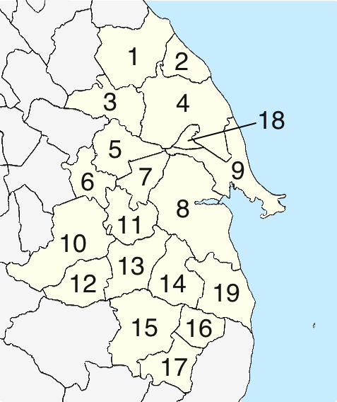 1. Flødstrup Sogn 2. Bovense Sogn 3. Ullerslev Sogn 4. Aunslev Sogn 5. Skellerup Sogn 6. Ellinge Sogn 7. Kullerup Sogn 8. Vindinge Sogn 9. Nyborg Sogn 10. Herrested Sogn 11. Refsvindinge Sogn 12. Ellested Sogn 13. Ørbæk Sogn 14. Frørup Sogn 15. Svindinge Sogn 16. Langå Sogn 17. Øksendrup Sogn 18. Hjulby Sogn 19. Tårup Parish